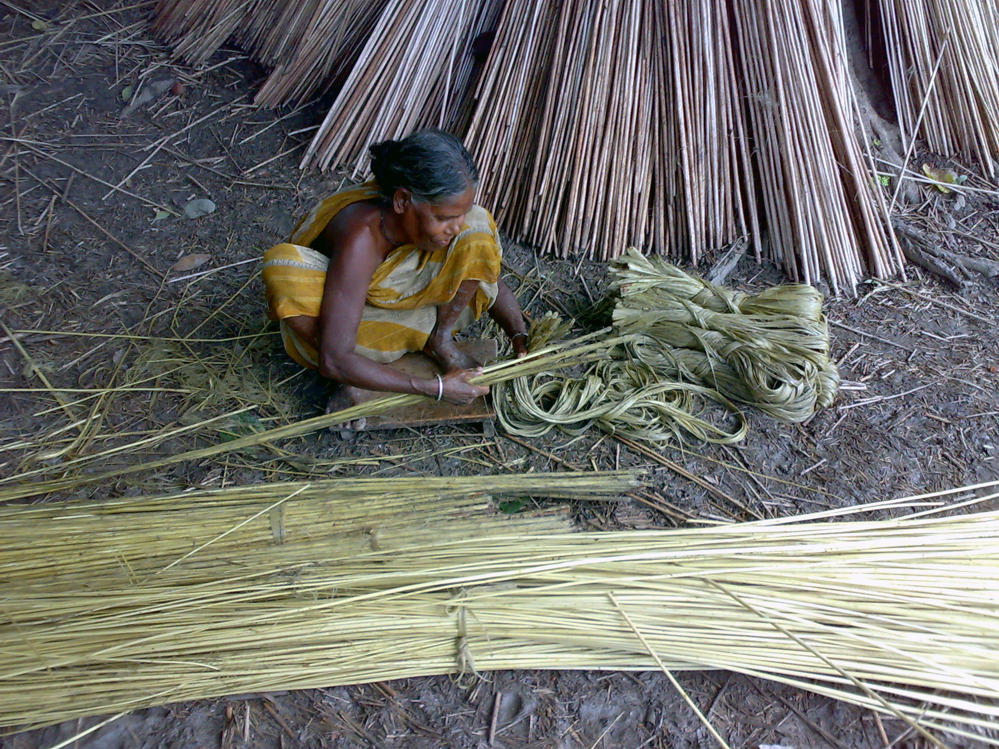 Rainy Season Jute Maintenance